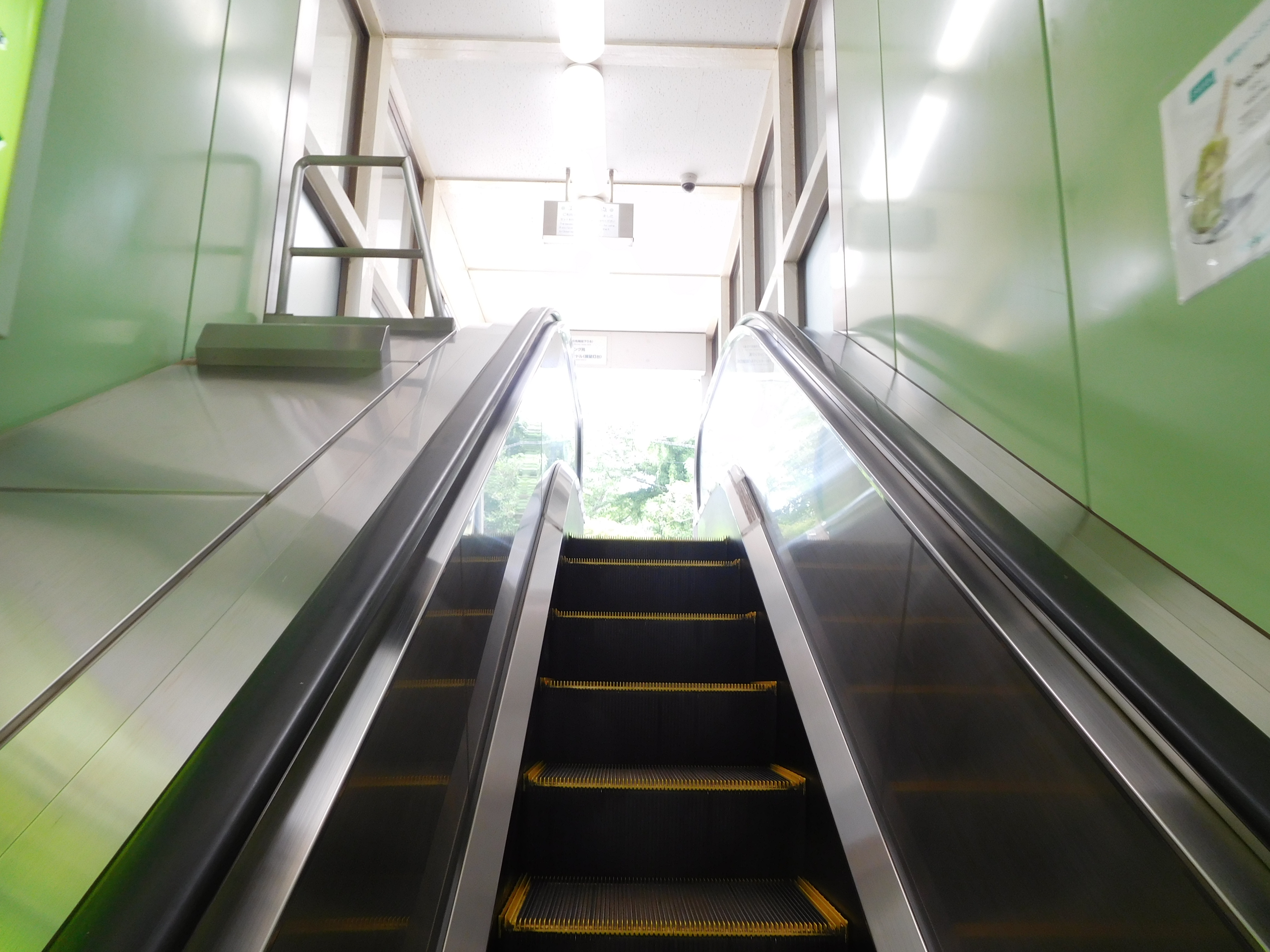 This is a Enoshima Escar, an outdoor toll escalator in Enoshima, Fujisawa, Kanagawa, Japan.